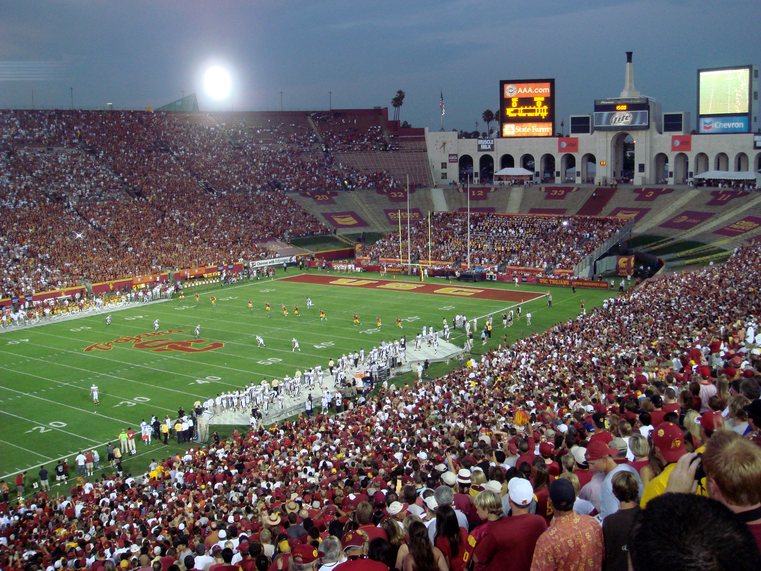 The first kickoff of the 2007 Trojan season. The Idaho Vandals visit the USC Trojans at the L.A. Coliseum on September 1, 2007; USC would win, 38-10.